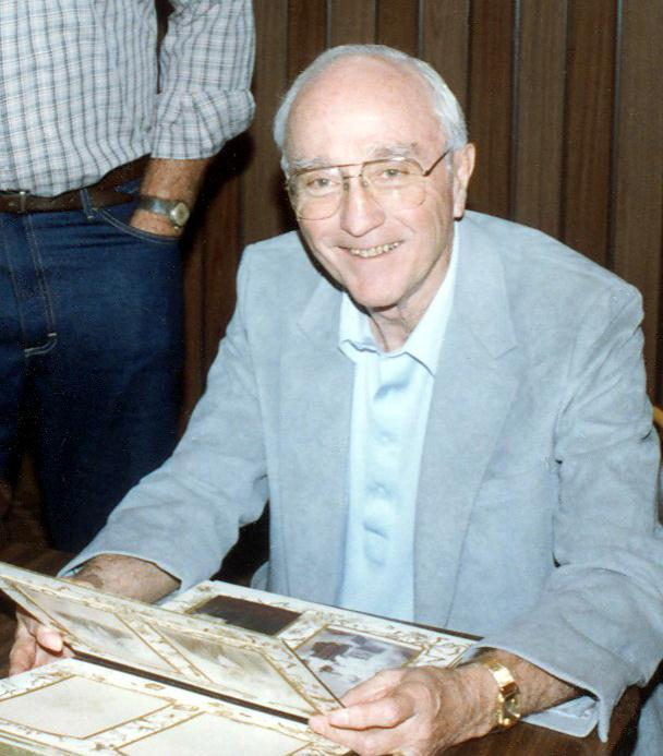 Dr. Stanley M. Truhlsen, Sr., as released by image owner FamSACPlace: Blair, Nebrask